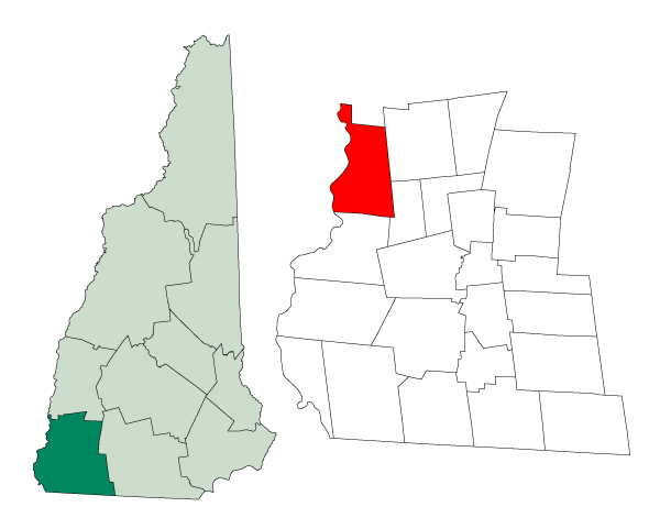 Map of a municipality in Cheshire County, New Hampshire